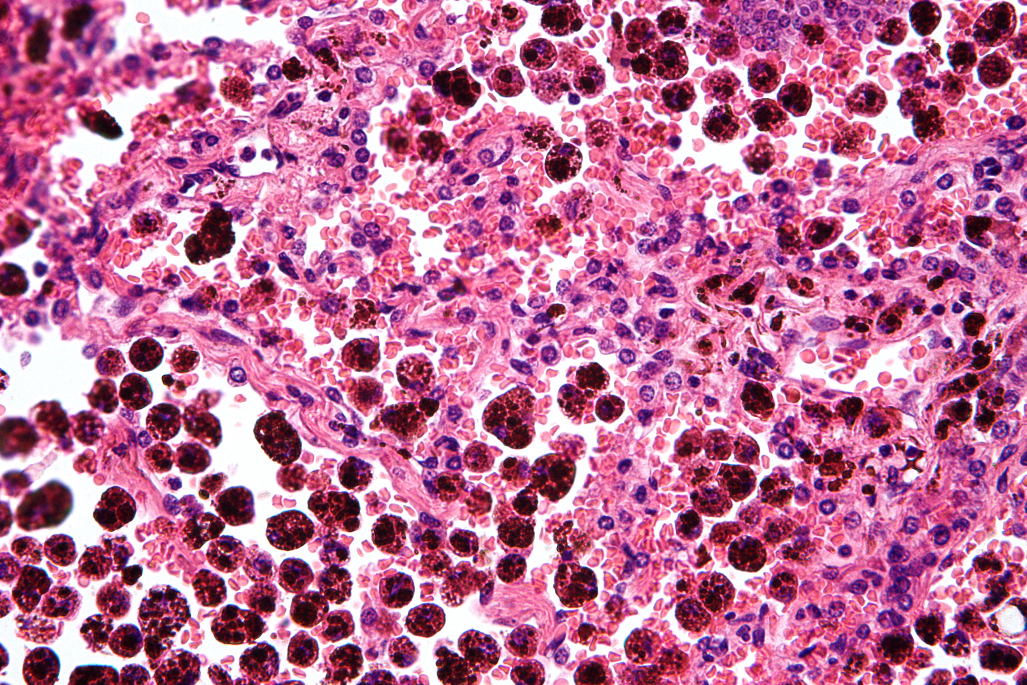 Very high magnification micrograph of a (chronic) pulmonary haemorrhage, also pulmonary hemorrhage, lung bleed, bleeding in the lung. H&E stain. Features: Abundant hemosiderin-laden alveolar macrophages. Alveolar red blood cells. See also Low mag. Intermed. mag. High mag.